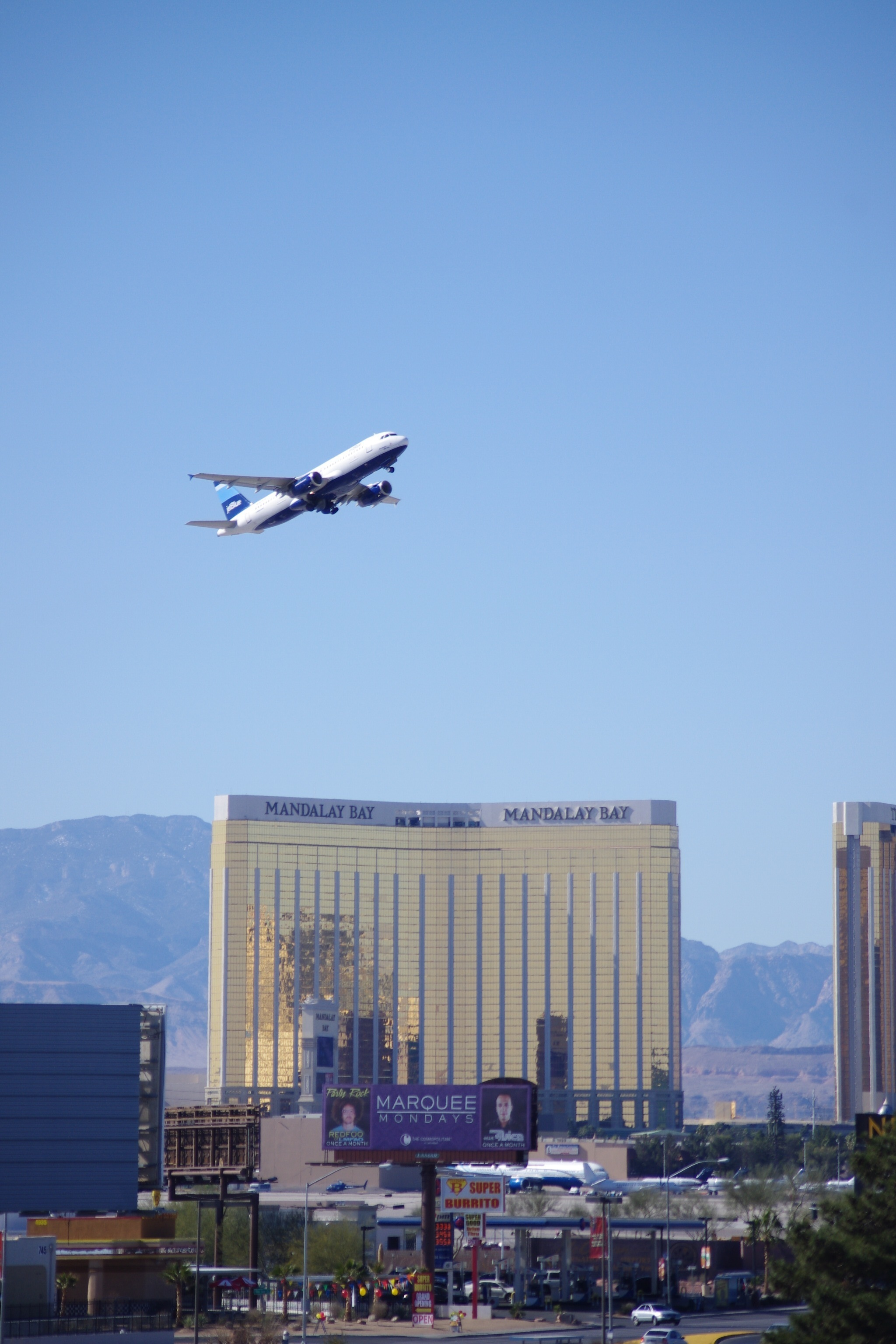 A jetBlue's jet is taking off from McCarran Airport